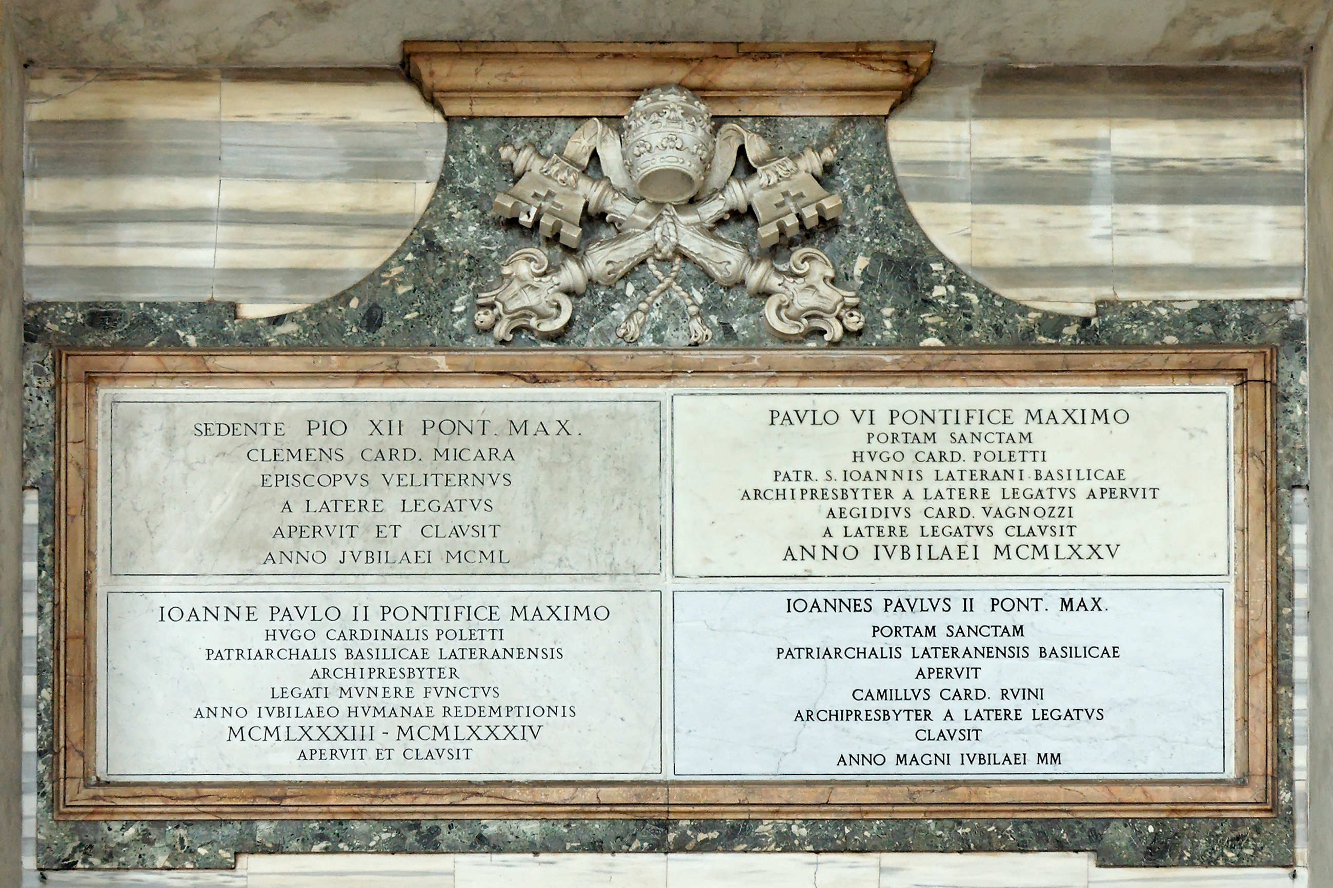 Inscriptions commemorating the opening and closing of the Holy Door by Popes Pius XII, Paul VI and John Paul II. Portico of the Basilica of St. John Lateran (Rome).